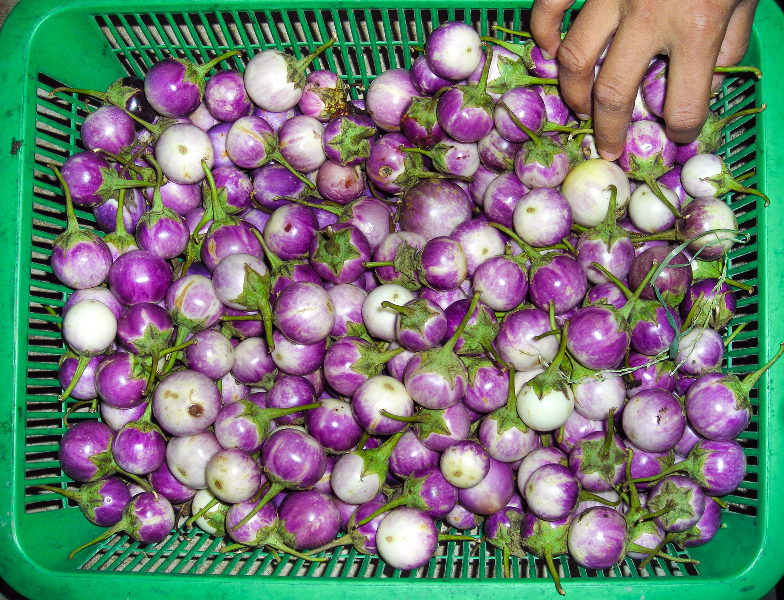 Makhuea - Thai aubergines.